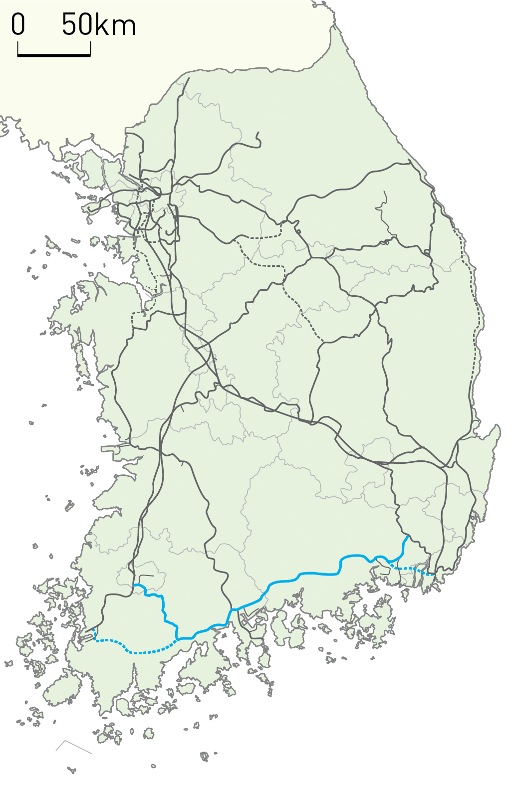 Korail Gyeongjeon Line Routemap